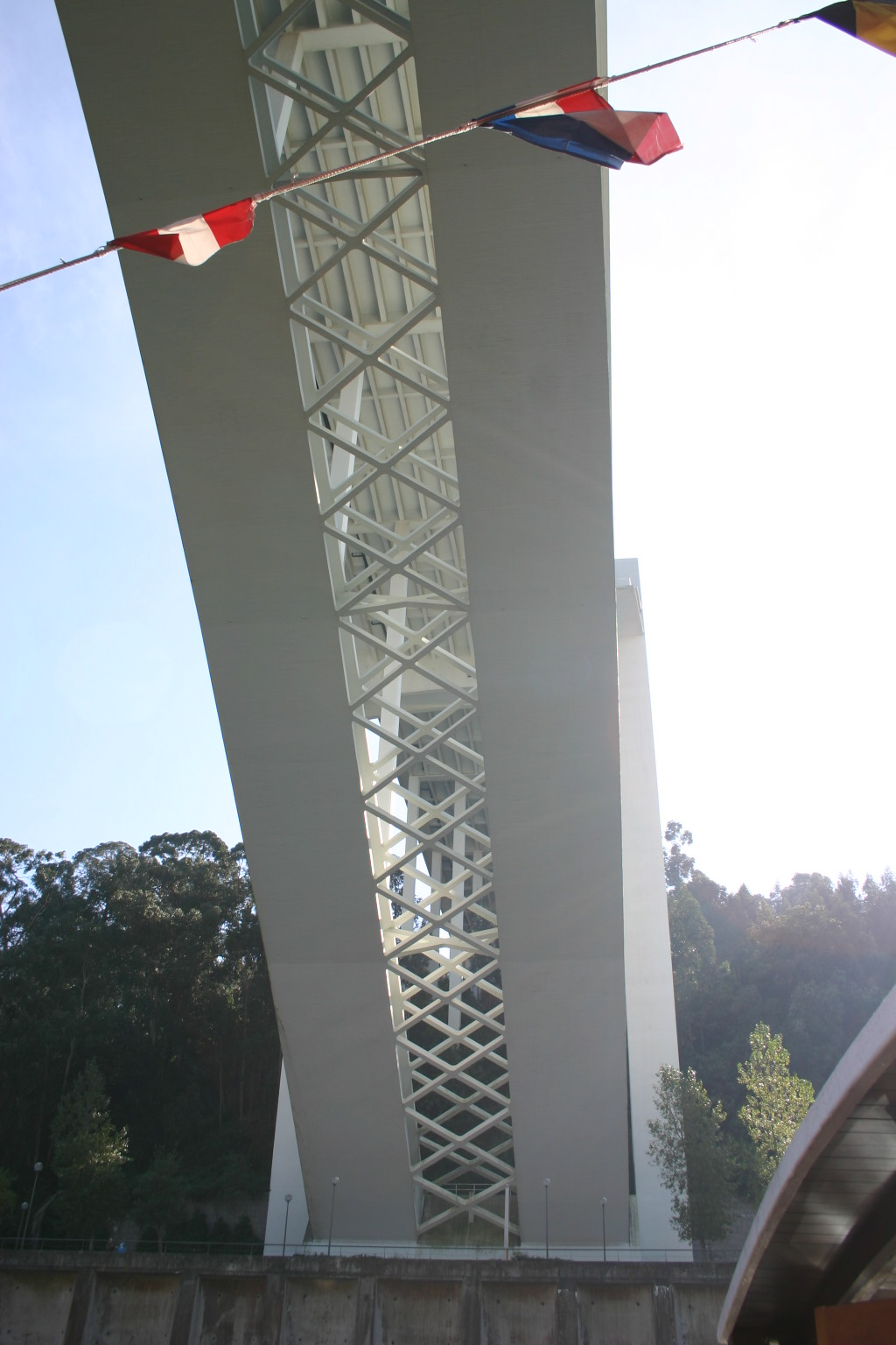 Autor: António ML Cabral Esta foto pode ser usada para qualquer tipo de utilização com a condição de ser indicado o nome do autor. This picture can be used for all kinds of usage with the condition of the author's name to be indicated.